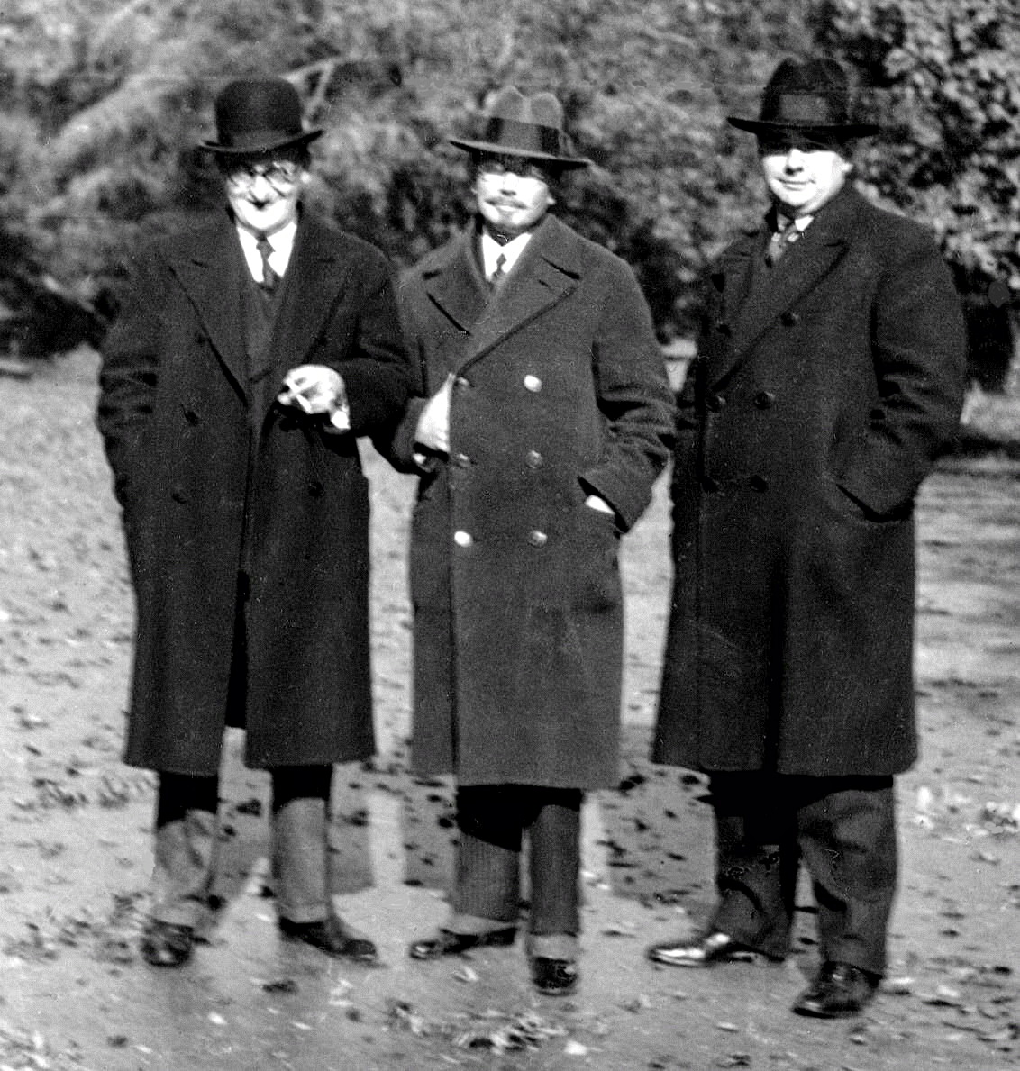 Camille Soula, Palladin,and Bugnard Louis 1933